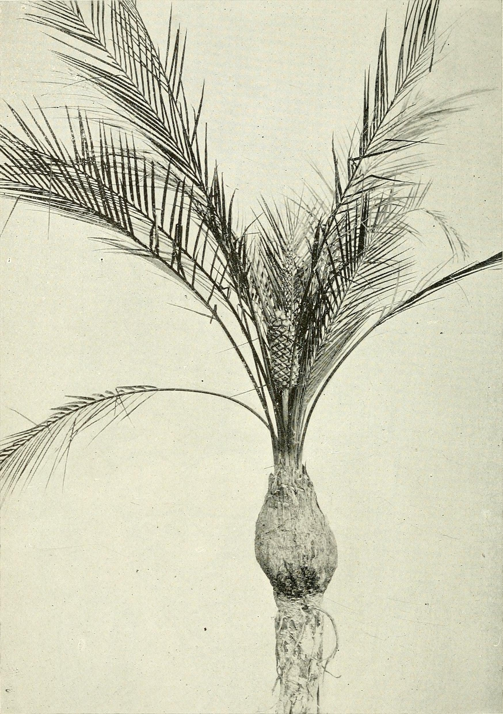 Macrozamia platyrhachisImage from page 551 of "Comprehensive catalogue of Queensland plants, both indigenous and naturalised"